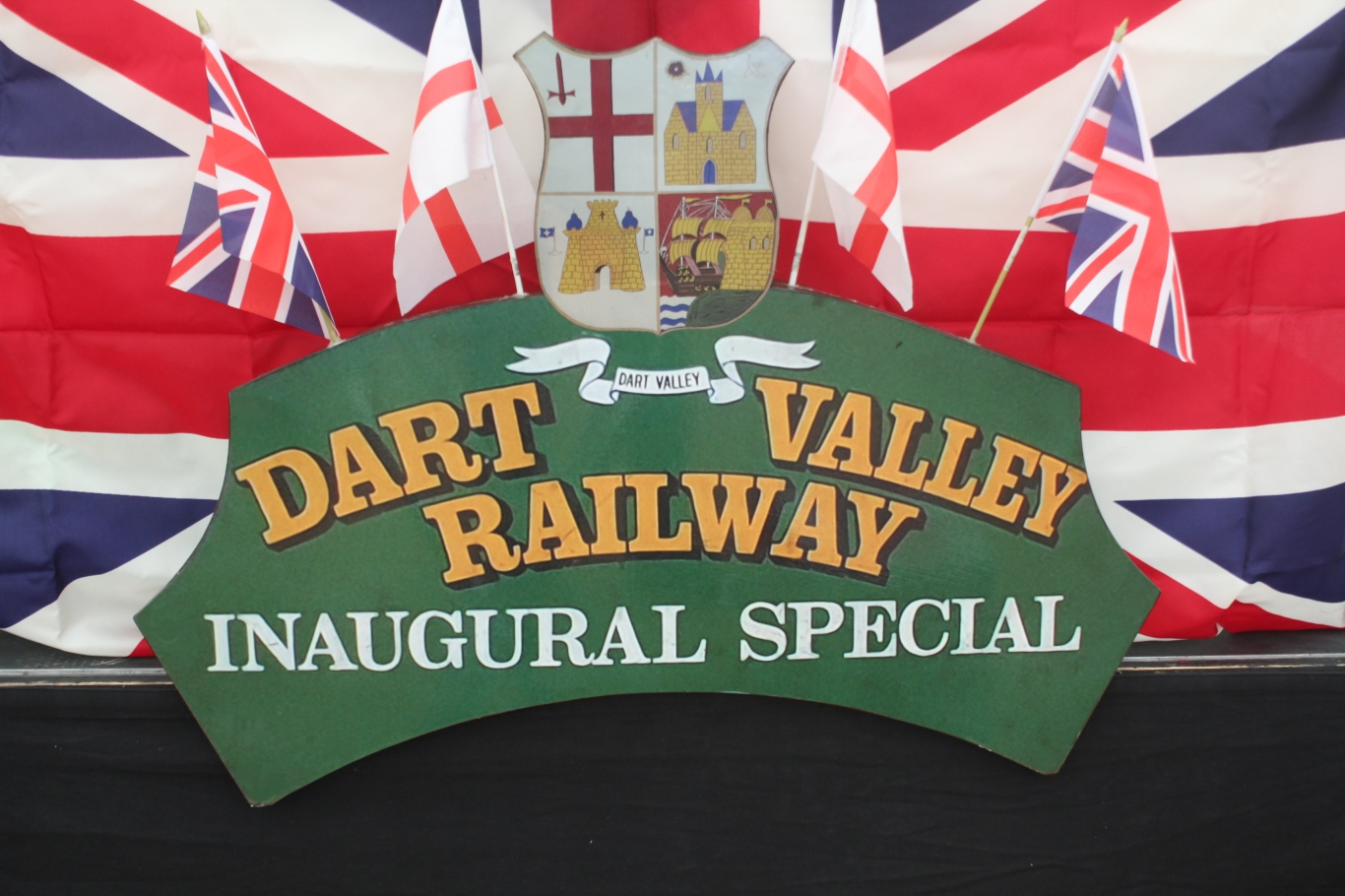 The headboard from the Dart Valley Railway's inaugural train was on display at Buckfastleigh for the line's 50th anniversary.